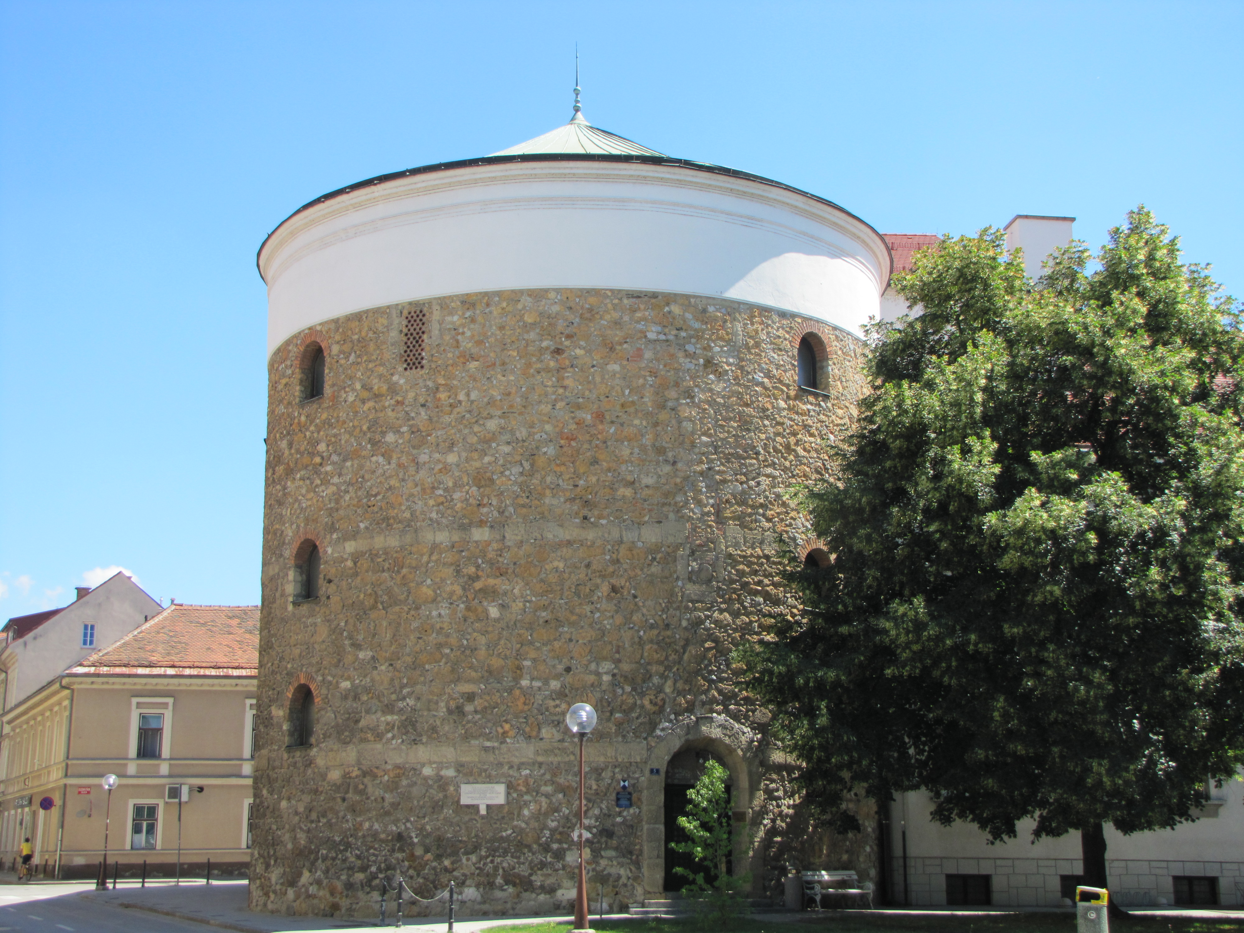 Theater Tower in Celje.